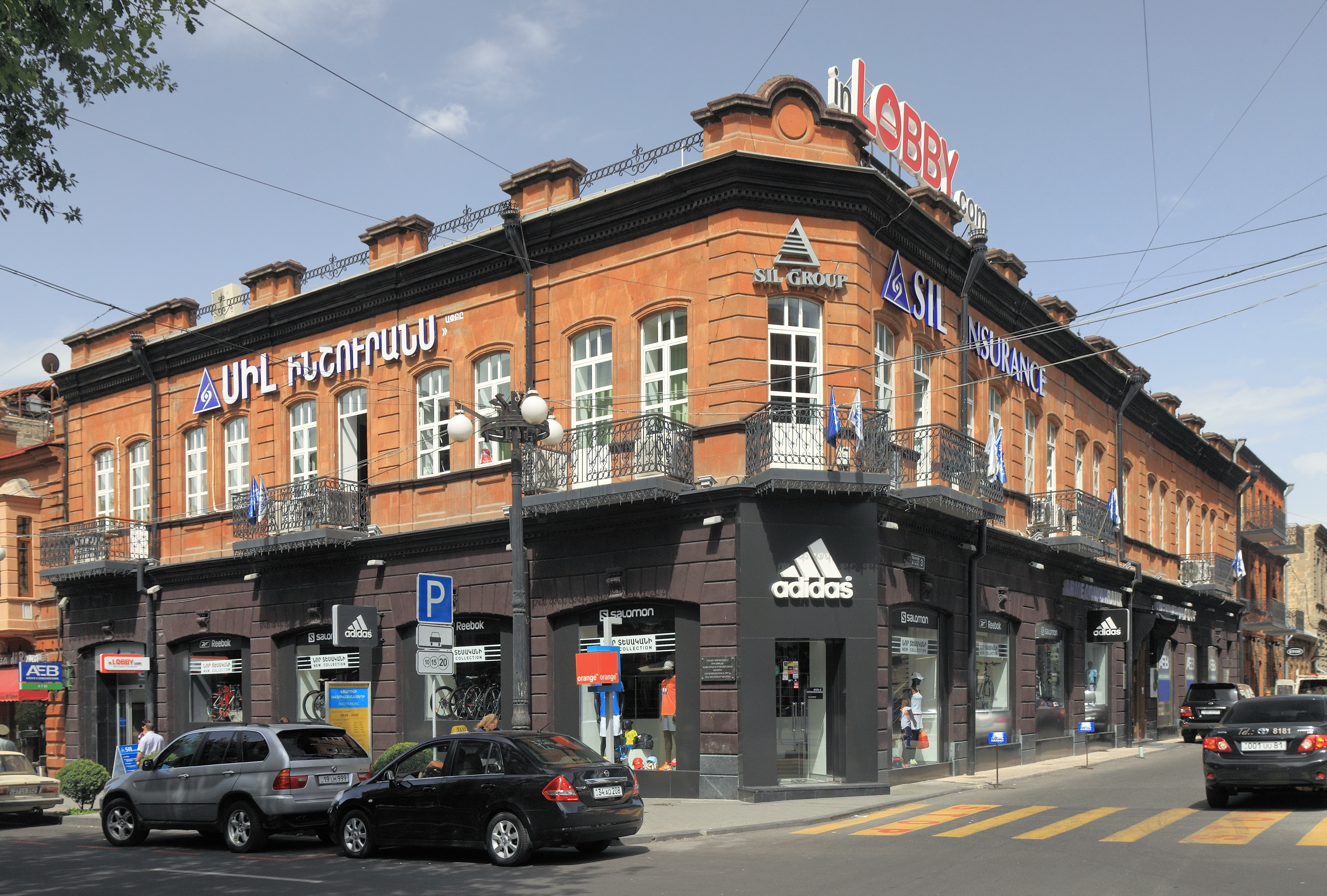 3 Aram Street. Yerevan, Armenia.